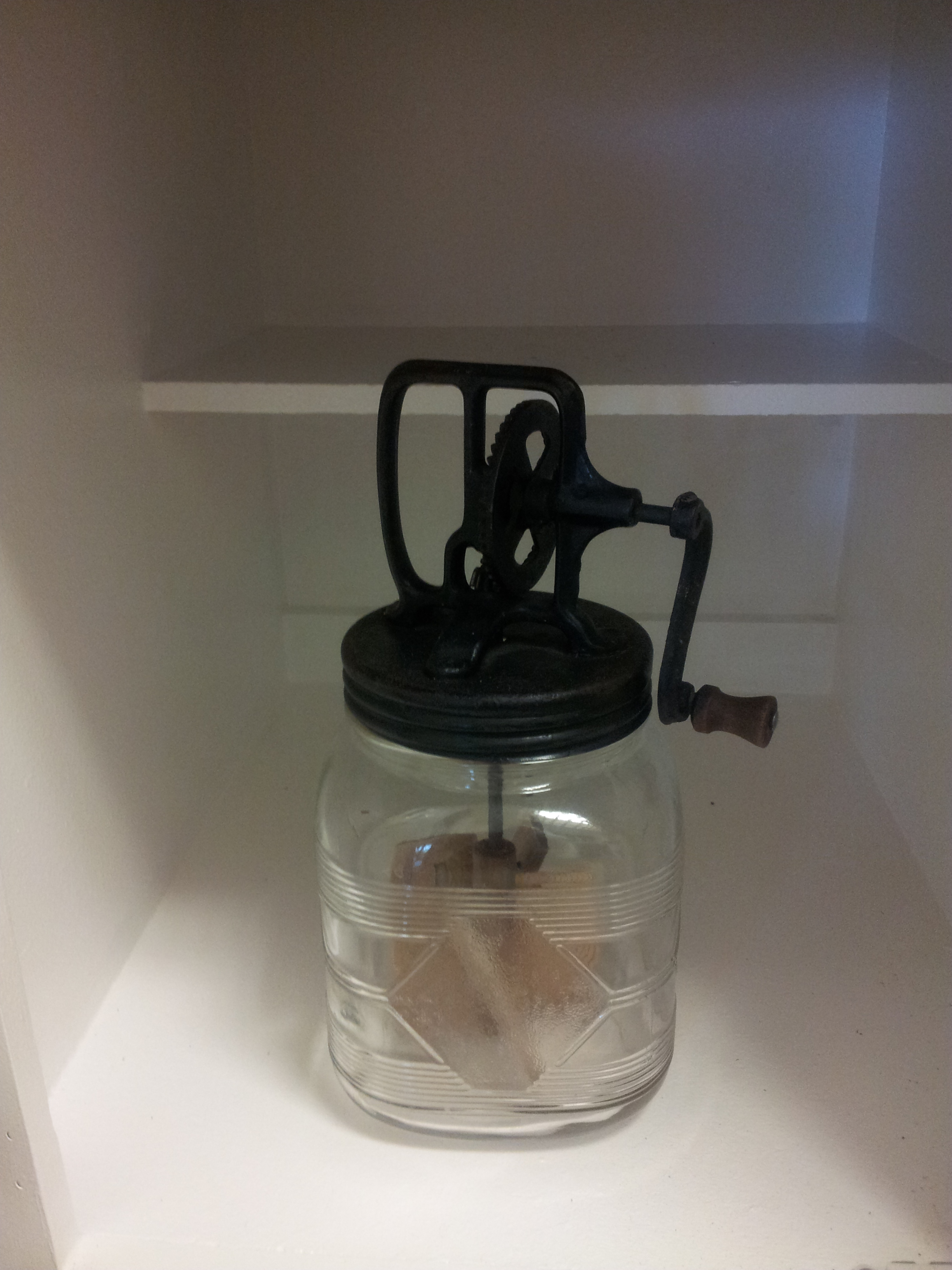 Paddle type hand-cranked butter churn